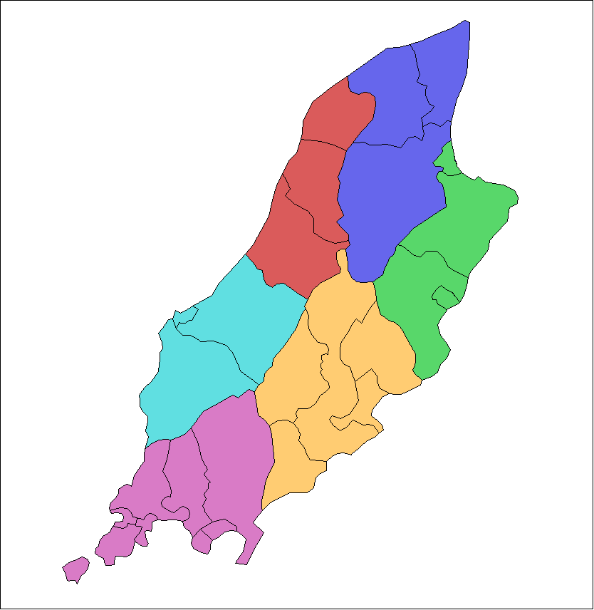 Map of the parishes of the Isle of Man, coloured according to sheading. Based upon public domain maps (Image:Isle of Man Parishes.png and Image:Isle of Man.png) made by Rarelibra and Lockeownzj00, and modified by myself using the GIMP. QuartierLatin1968 00:09, 5 August 2006 (UTC)